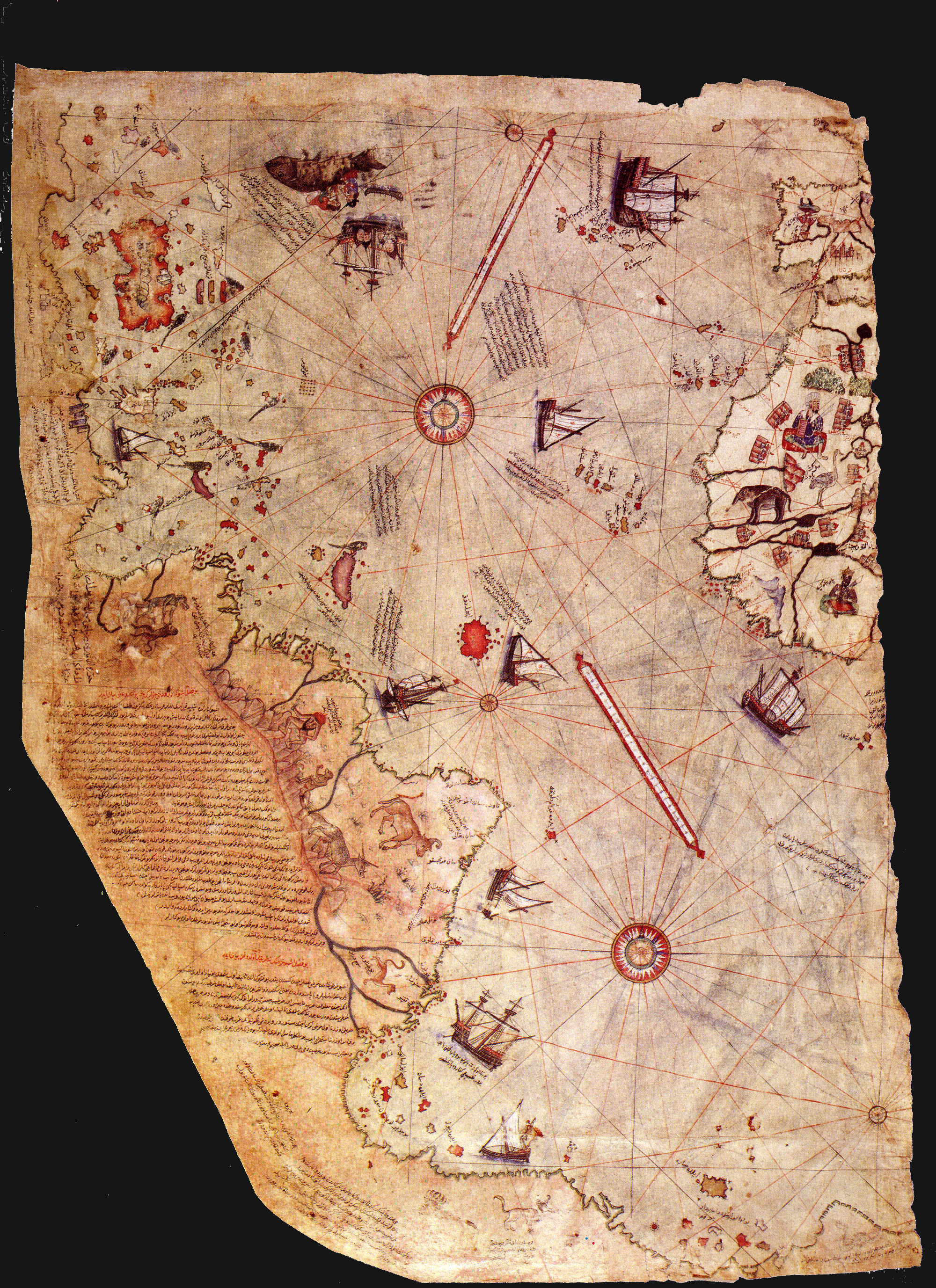 A peculiar map drawn by the Turkish admiral Piri Reis around 1513, showing parts of the earth nowadays covered with ice.